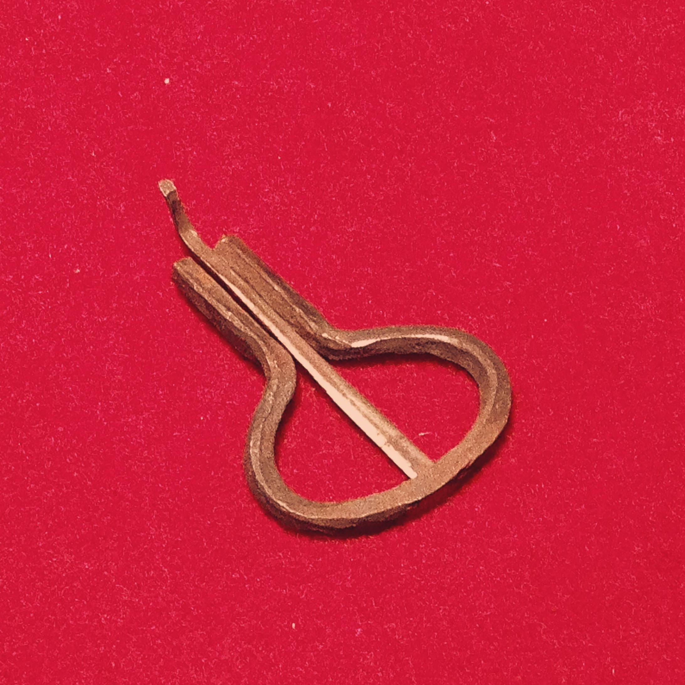 Guimbarda from Eivissa, Balearic Islands, donated by Josep Ricart i Matas in 1946.